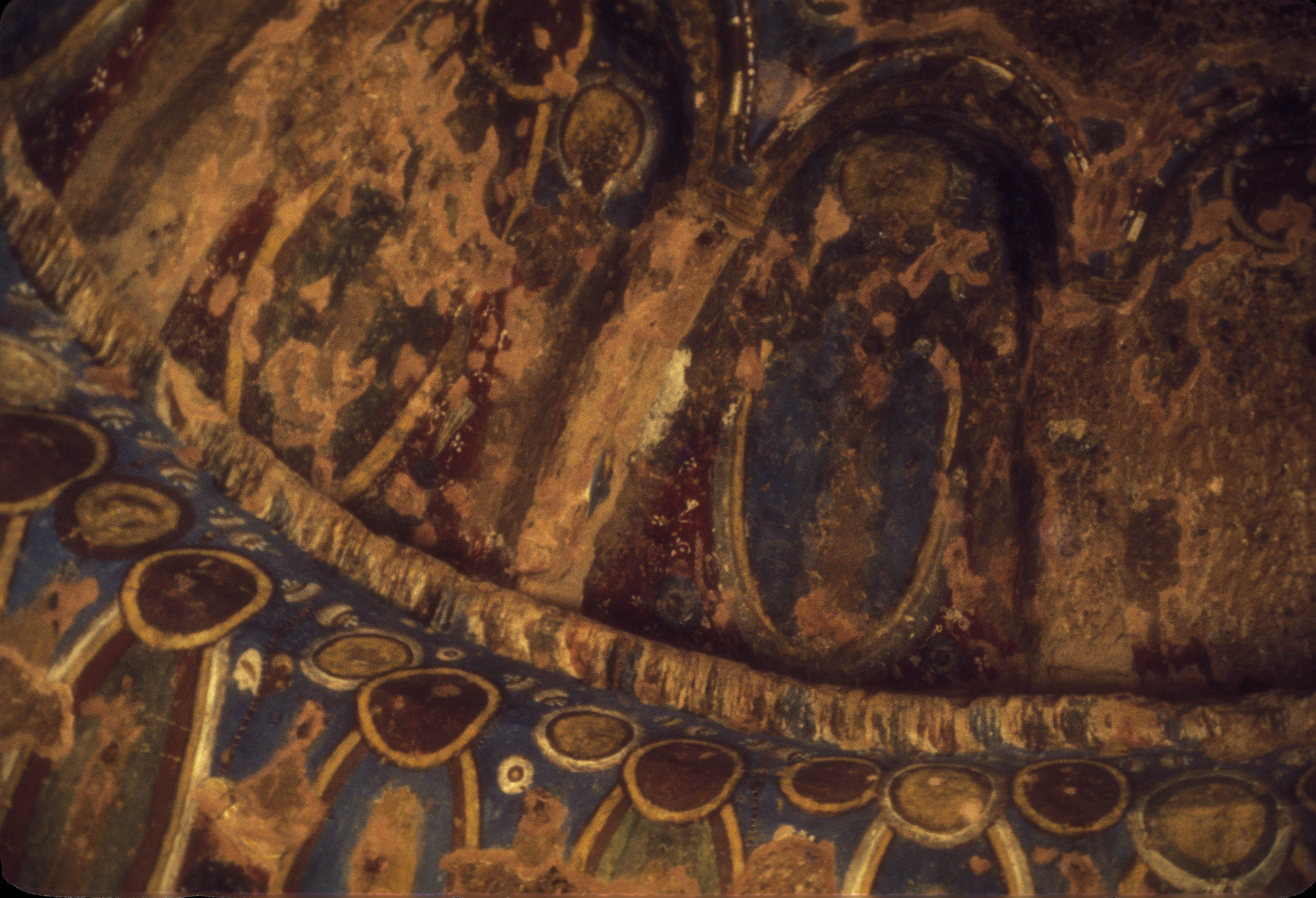 THERE ARE NUMEROUS GROTTOS POSITIONED BY THE BUDDHAS WHICH WERE DESTROYED BY THE TALIBAN. THESE GROTTOS WERE ALL COVERED BY PAINTINGS SEEN IN THIS PICTURE